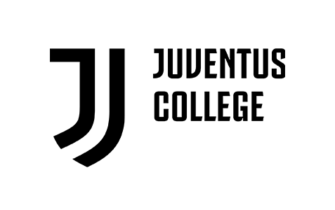 Logo of the Juventus College, Scientific High School of Applied Sciences located at Juventus' Vinovo Training Center (2017).